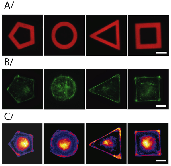 A/ Fibronectin and fibrinogen-A546 coating on micropatterned PNIPAM glass surface (red). Scale bar is 15 um. B/ individual MEF cells plated on pentagon, annulus, triangle or square-shaped fibronectin micropatterns. Cells were fixed and stained with phalloidin to reveal F-actin filaments (green). Scale bar represents 15 um. C/ Average distributions of actin (fire), built from the overlay of 10 images for each shape. The average distribution highlights the reproducibility of the distributions shown in B/ and enhances the spatial distribution of F-actin bundles along micropattern border regions. Scale is 15 um.